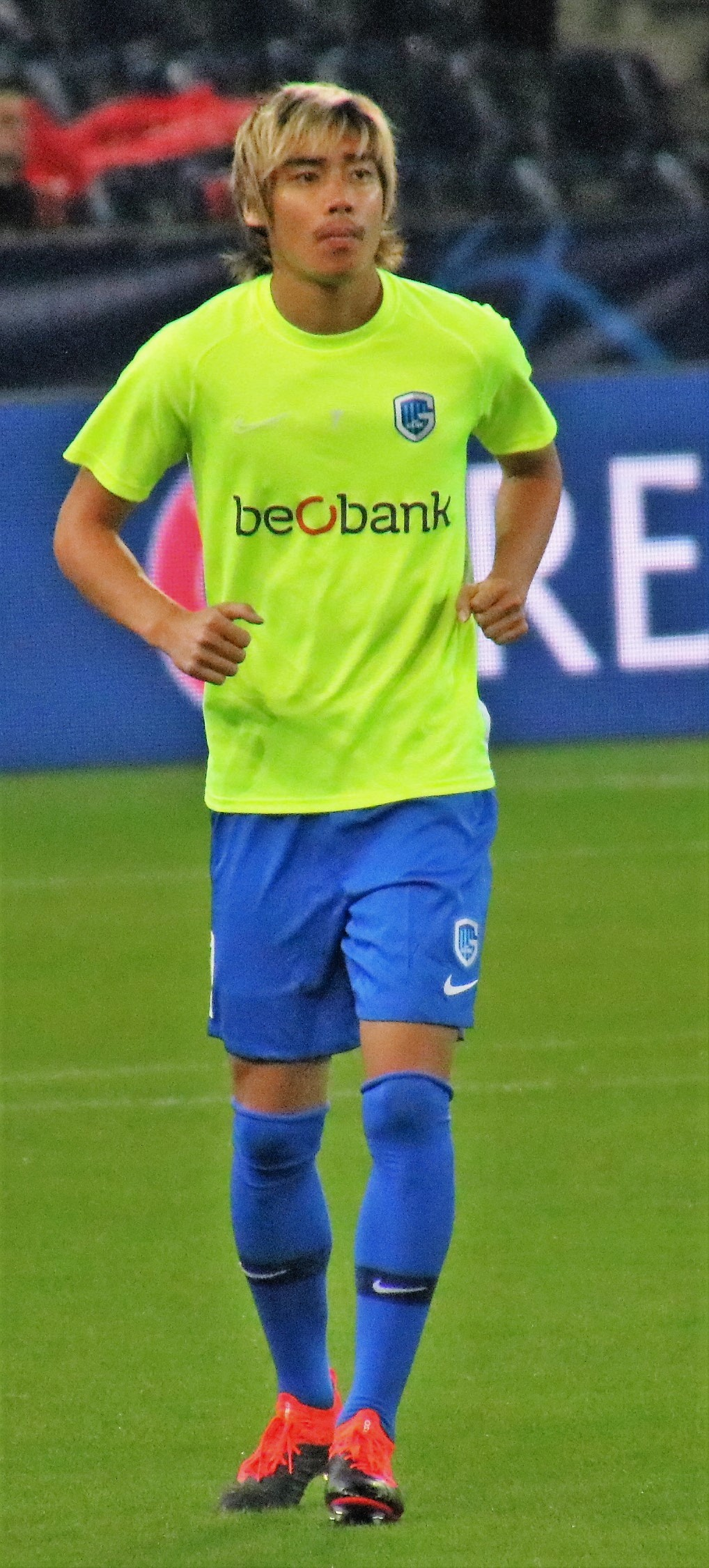 First Championsleague match of FC Salzburg